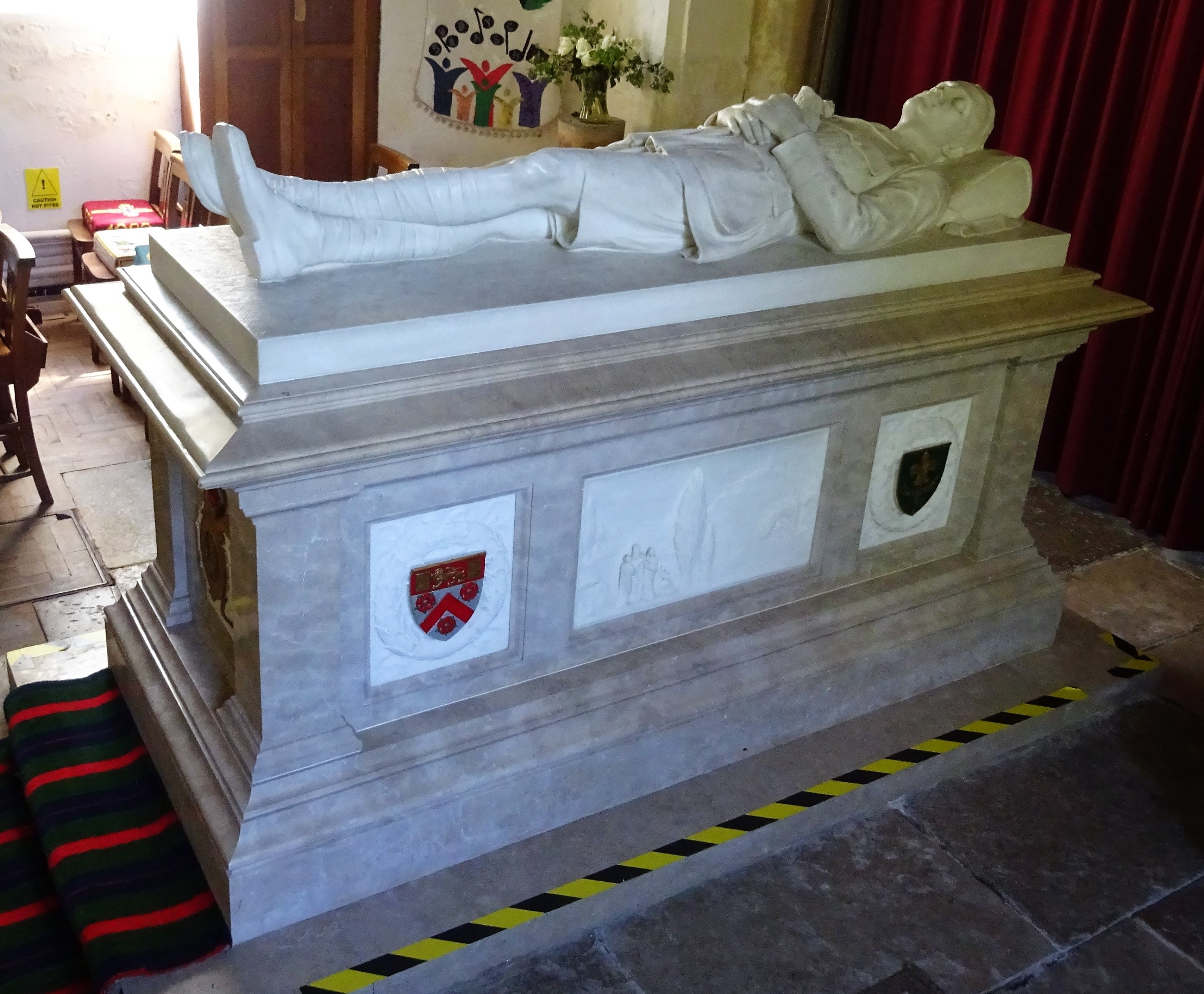 Monument in St Olave's church, Gatcombe, Isle of Wight, to Captain Charles Grant Seely, killed in action serving with the Isle of Wight Rifles at the Second Battle of Gaza, 1917. The monument was the final work of the eminent sculptor Sir Thomas Brock, and was unveiled in 1922.